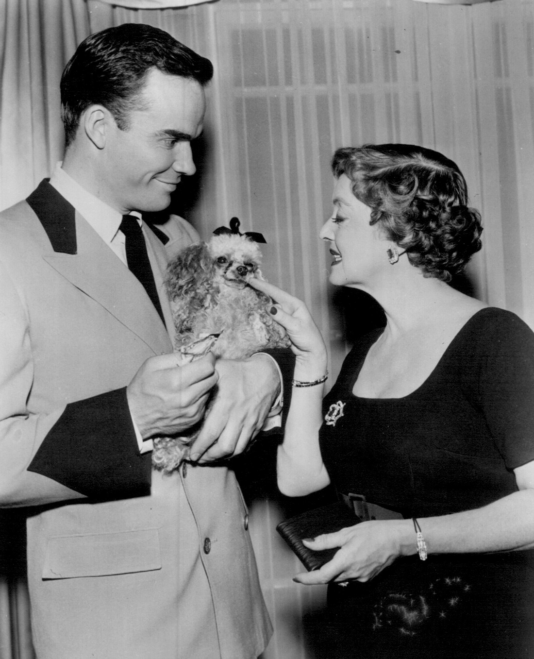 Photo of James Congdon and Bette Davis from an episode of the television show Alfred Hitchcock Presents.